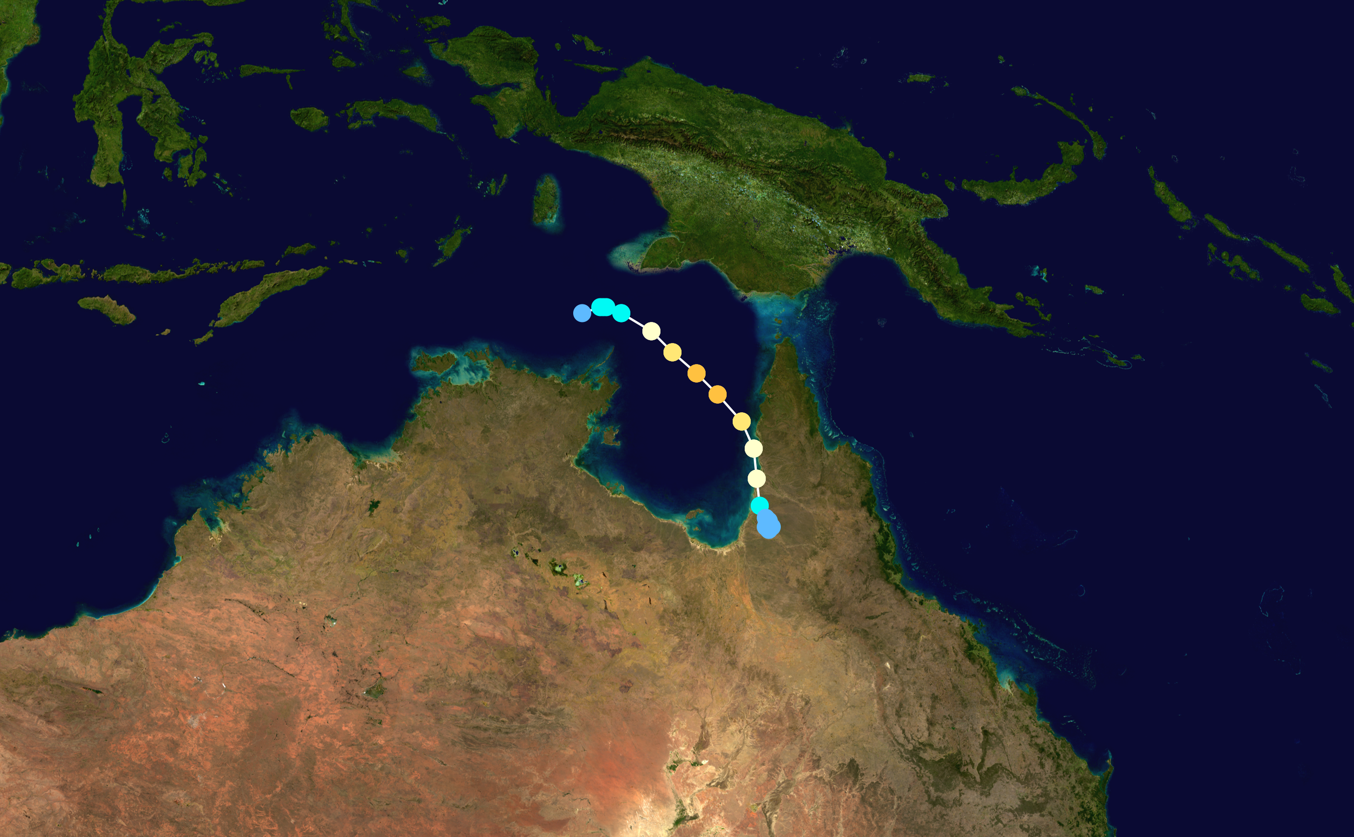 Track map of Severe Tropical Cyclone Nora of the 2017-18 Australian region cyclone season. The points show the location of the storm at 6-hour intervals. The colour represents the storm's maximum sustained wind speeds as classified in the Saffir–Simpson scale (see below), and the shape of the data points represent the nature of the storm, according to the legend below. Saffir–Simpson scale Tropical depression≤38 mph≤62 km/h Category 3111–129 mph178–208 km/h Tropical storm39–73 mph63–118 km/h Category 4130–156 mph209–251 km/h Category 174–95 mph119–153 km/h Category 5≥157 mph≥252 km/h Category 296–110 mph154–177 km/h Unknown Storm type Tropical cyclone Subtropical cyclone Extratropical cyclone / Remnant low / Tropical disturbance / Monsoon depression